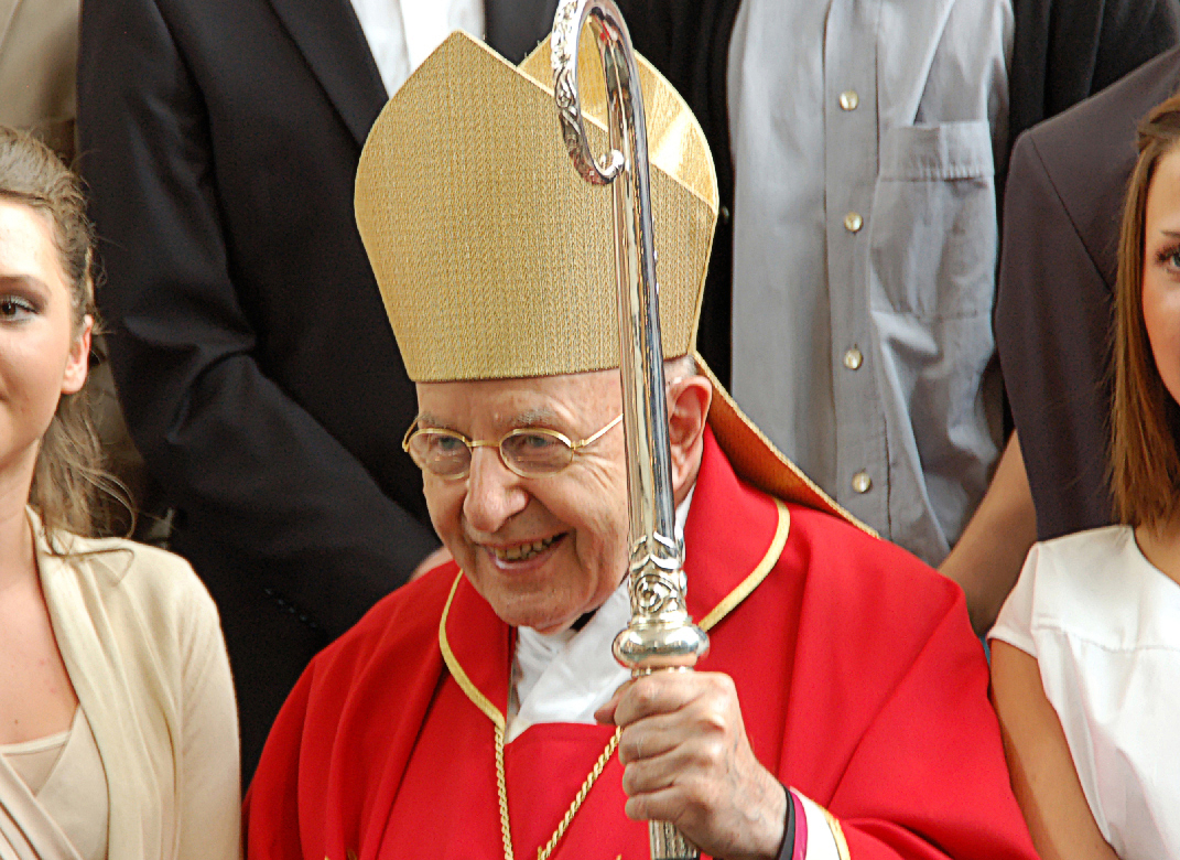 Pictures